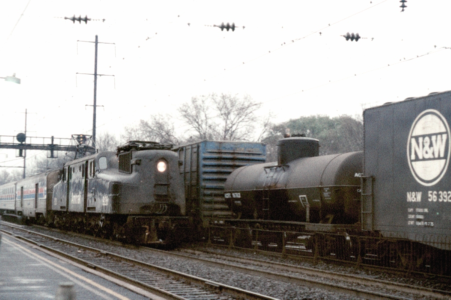 Amtrak 928 hauling passengers through North Elizabeth, New Jersey. Note the Slumbercoach at left.